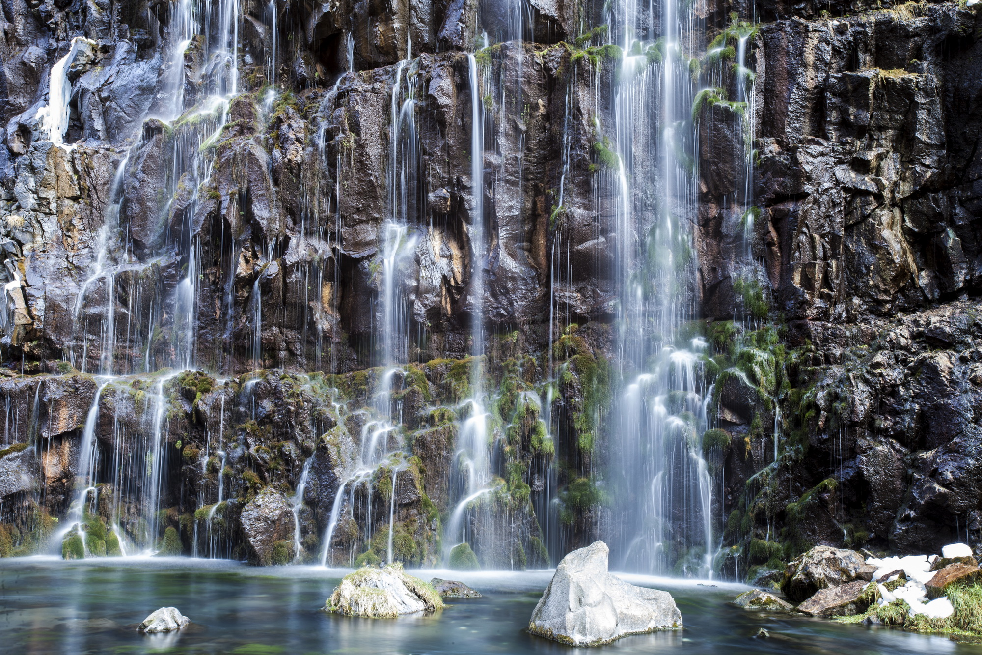 Dashbash Canyon Natural Monument Attractions: Dashbash Canyon Natural Monument is a canyon carved by Ktsia (Khrami) River in the stream bed cut through the volcanogenic rocks of Dashbash volcanic plateau, distinguished by its rarity and biodiversity. It is located at 1,110-1,448 m above sea level. The vegetation cover of the surrounding ecosystem is rather sparse, whereas the plants on the steep slopes of the canyon and astounding waterfalls create absolutely different micro-landscape, with characteristic micro-climate, specific fauna etc. How to get there: the nearest populated area is a village of Dashbash of Tsalka Municipality, which is linked to the town of Tsalka with a 3 km gravel road and 10 minutes by car. The area is 92 km and 1 hr and 40 min away from Tbilisi. The distance from Algeti National Park to Dashbash Canyon is 42 km, which is 50 minutes drive. Coordinates: X: 42 77 71 Y- 46 03 794. Starting point: C.g. 41° 36.235 a.g. 44° 06.685' z.d. 1448 m. Last point: C.g. 41° 33.458' a.g. 44° 07.262' z.d. 1110 m. Total area: 669 hectares